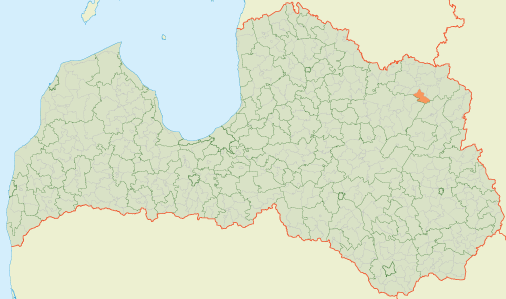 Location of Jaunanna Parish in Latvia